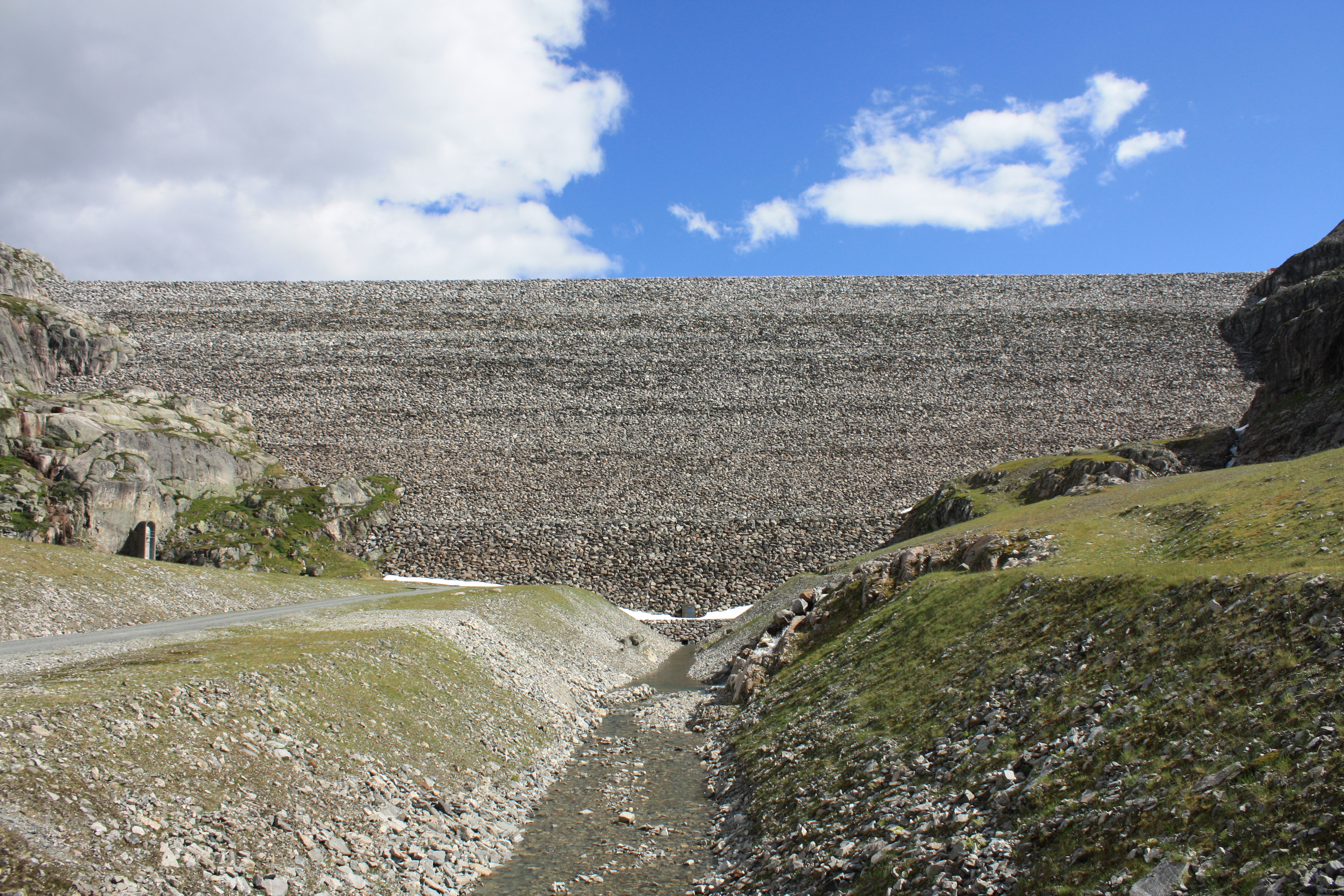 Oddatjørndammen by Blåsjø, part of Ulla-Førre